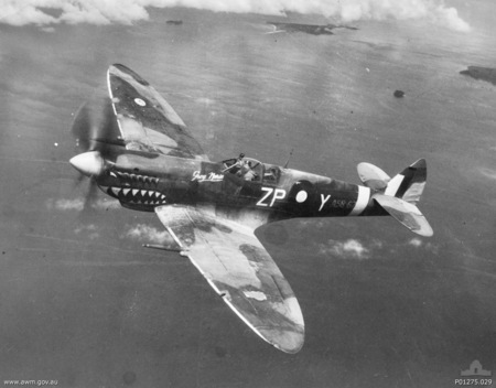 AWM caption : Labuan Island, Borneo. 1945. Side view of the `Grey Nurse' (ZP-Y A58-67), a MK 8 Spitfire aircraft of No. 457 Squadron RAAF in flight over the sea. It is being flown by Flying Officer Fred Inger. Note the shark's jaw painted on the front of the aircraft.